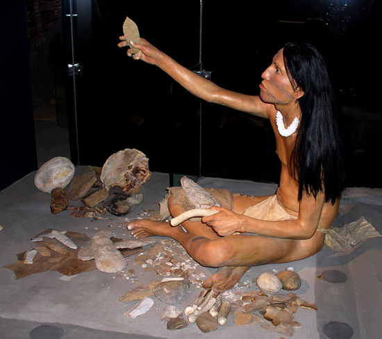 A diorama showing a Mississippian culture flintknapper from the Cahokia site in Collinsville, Illinois.